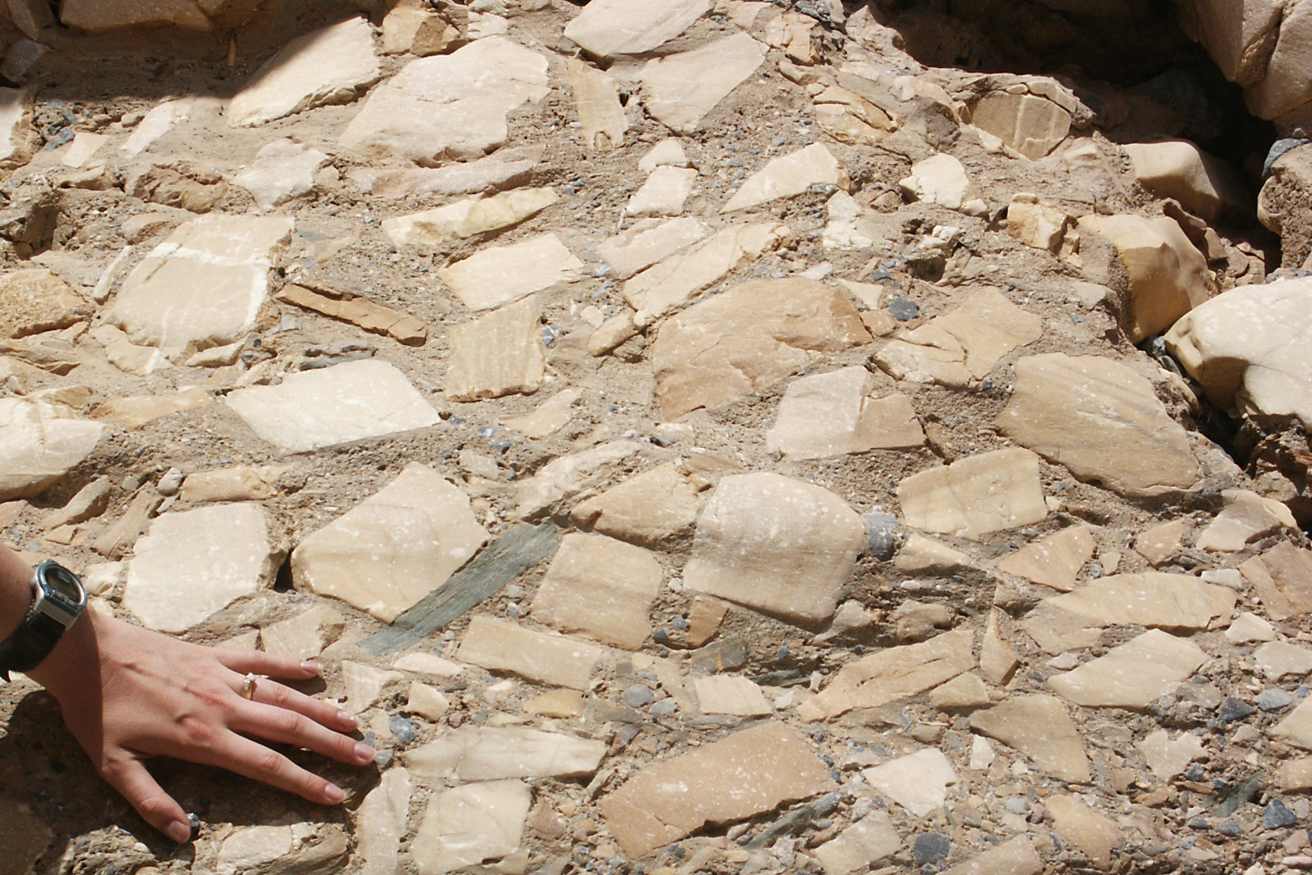 Breccia exposed in the walls of Mosaic Canyon, Death Valley, CA.